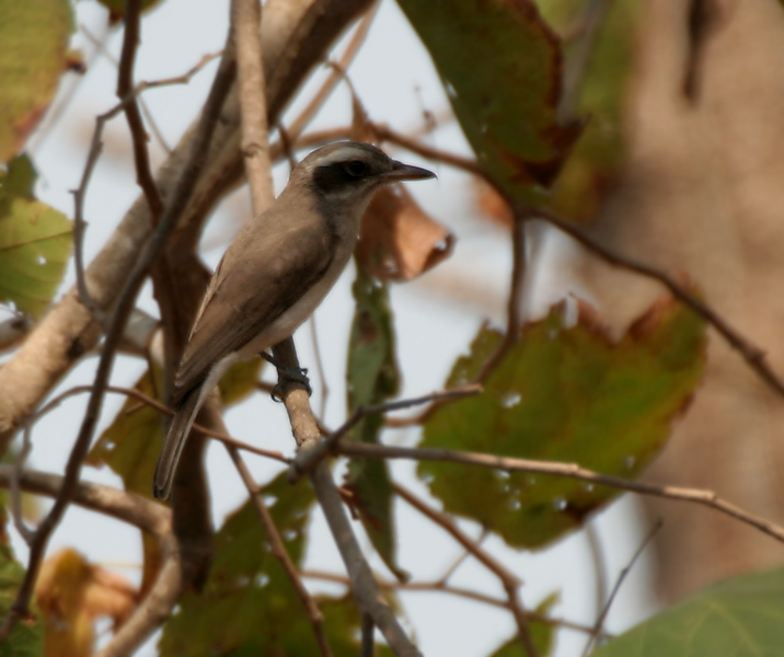 Common Woodshrike Tephrodornis pondicerianus in Kinnerasani Wildlife Sanctuary, Andhra Pradesh, India.